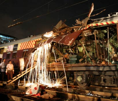 Workers cut damaged part of a local train compartment hit by bomb blast, Mumbai.